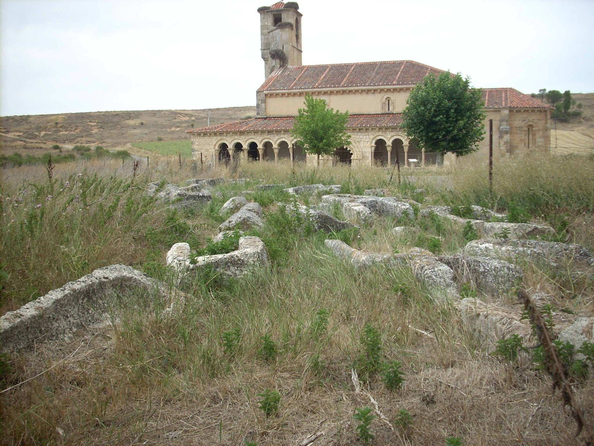 Visigoths burial in Duratón